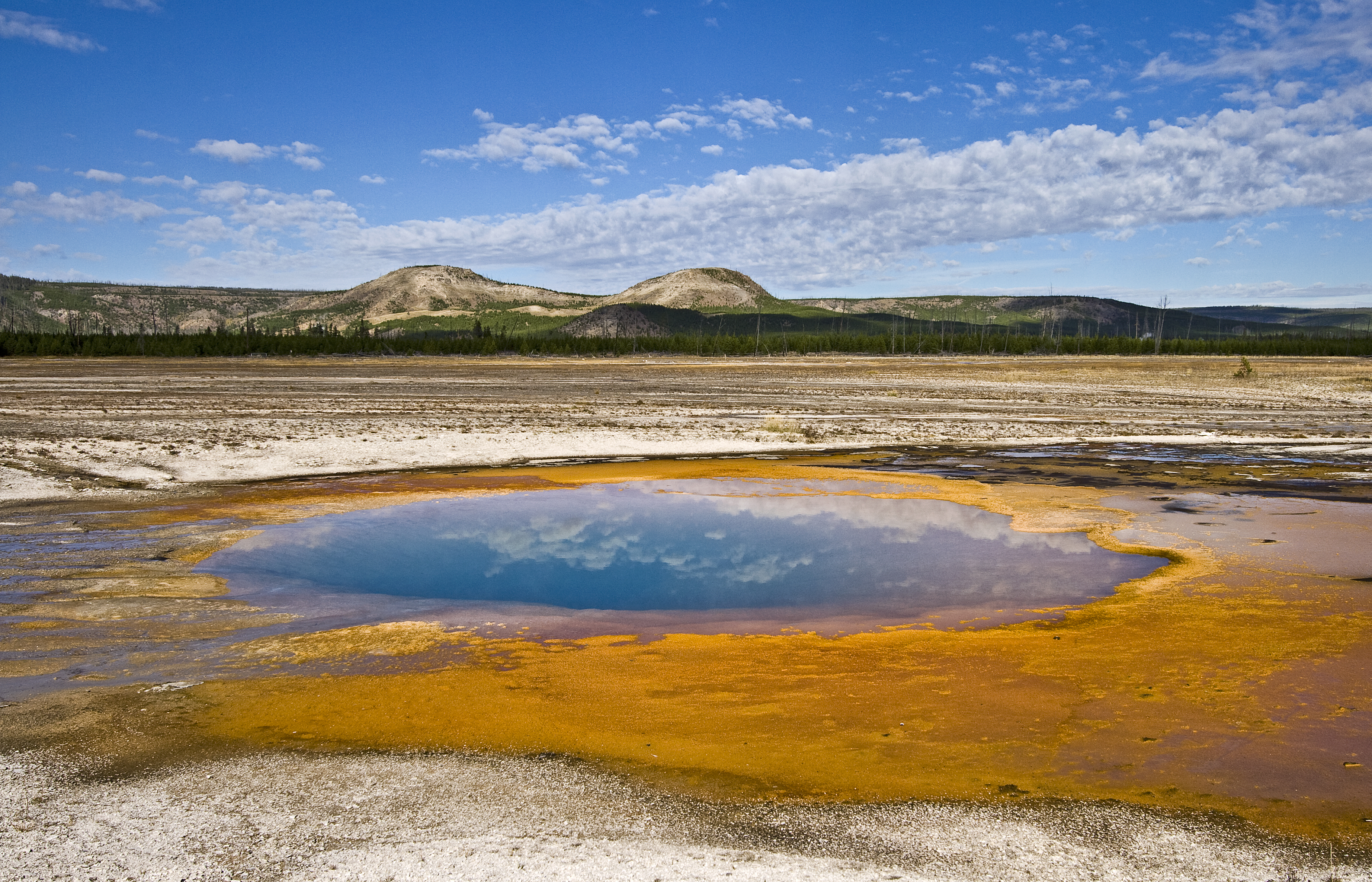 Opal Pool, with Twin Buttes beyond, in the Midway Geyser Basin, Yellowstone National Park, Wyoming, USA.